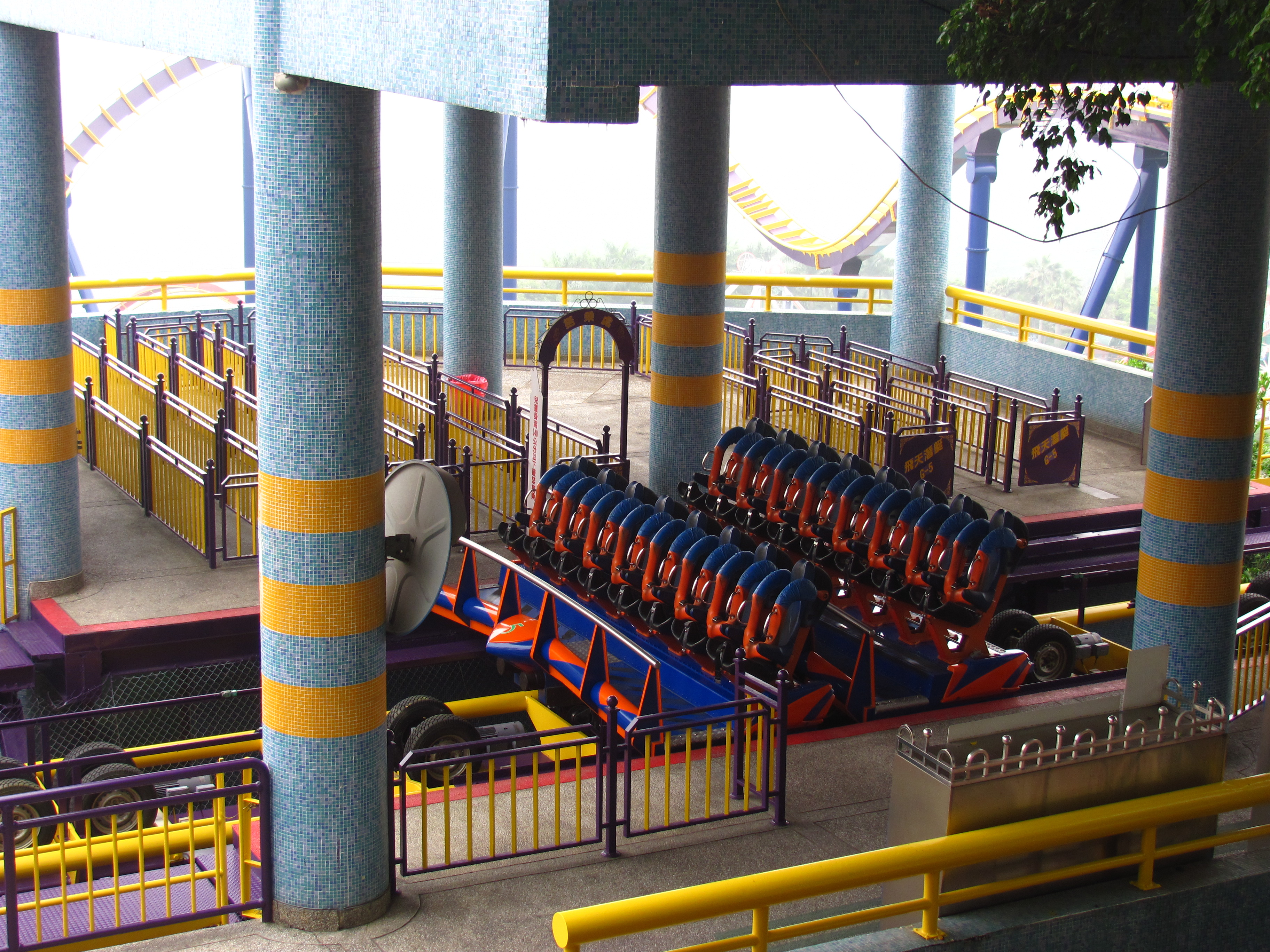 Diving Machine G5, Janfusun Fancyworld, Taiwan